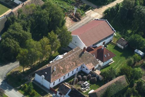 Nagytevel, Hungary, aerialphotgoraphy